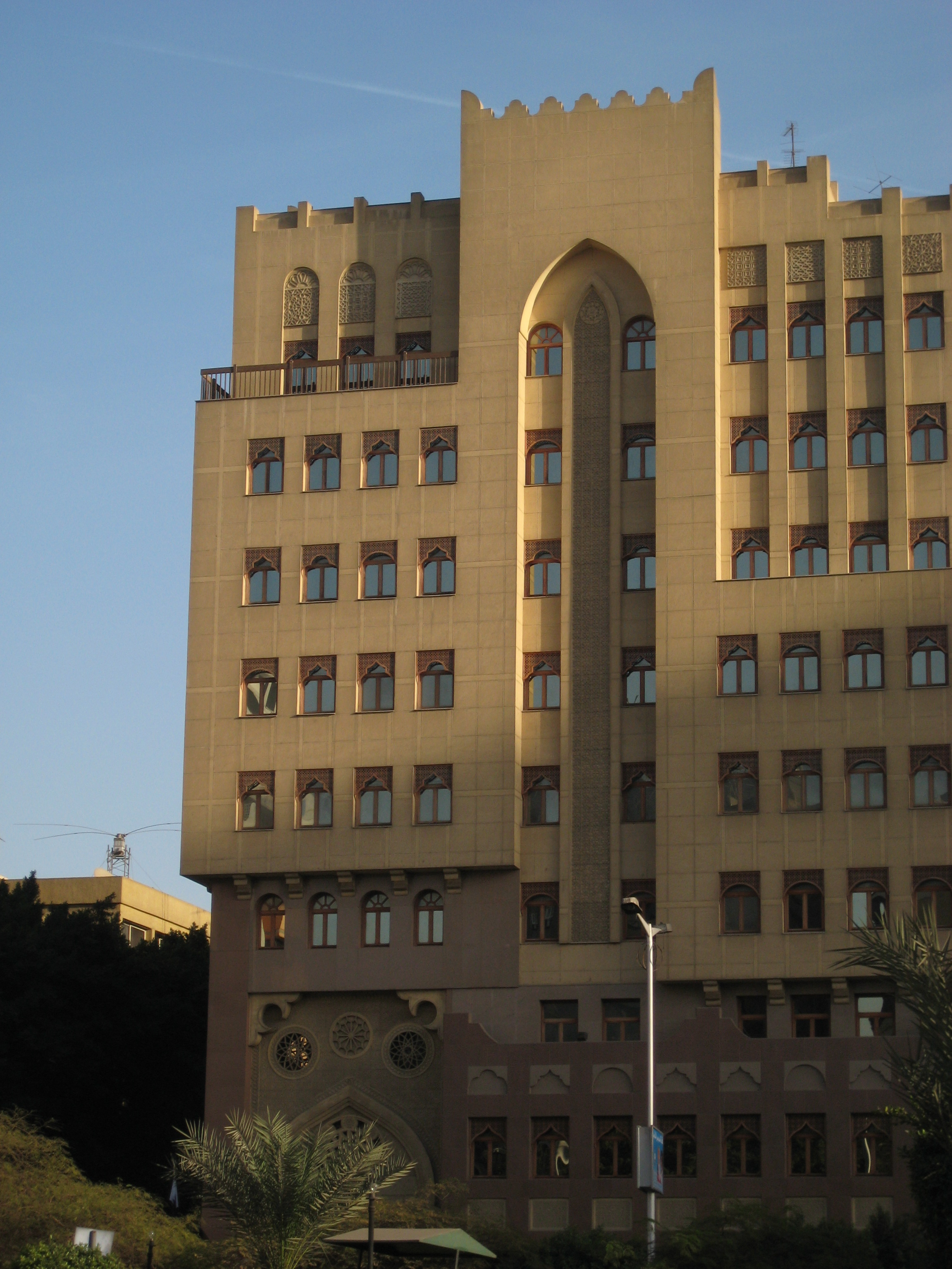 Building in Mohandessin, Gizah